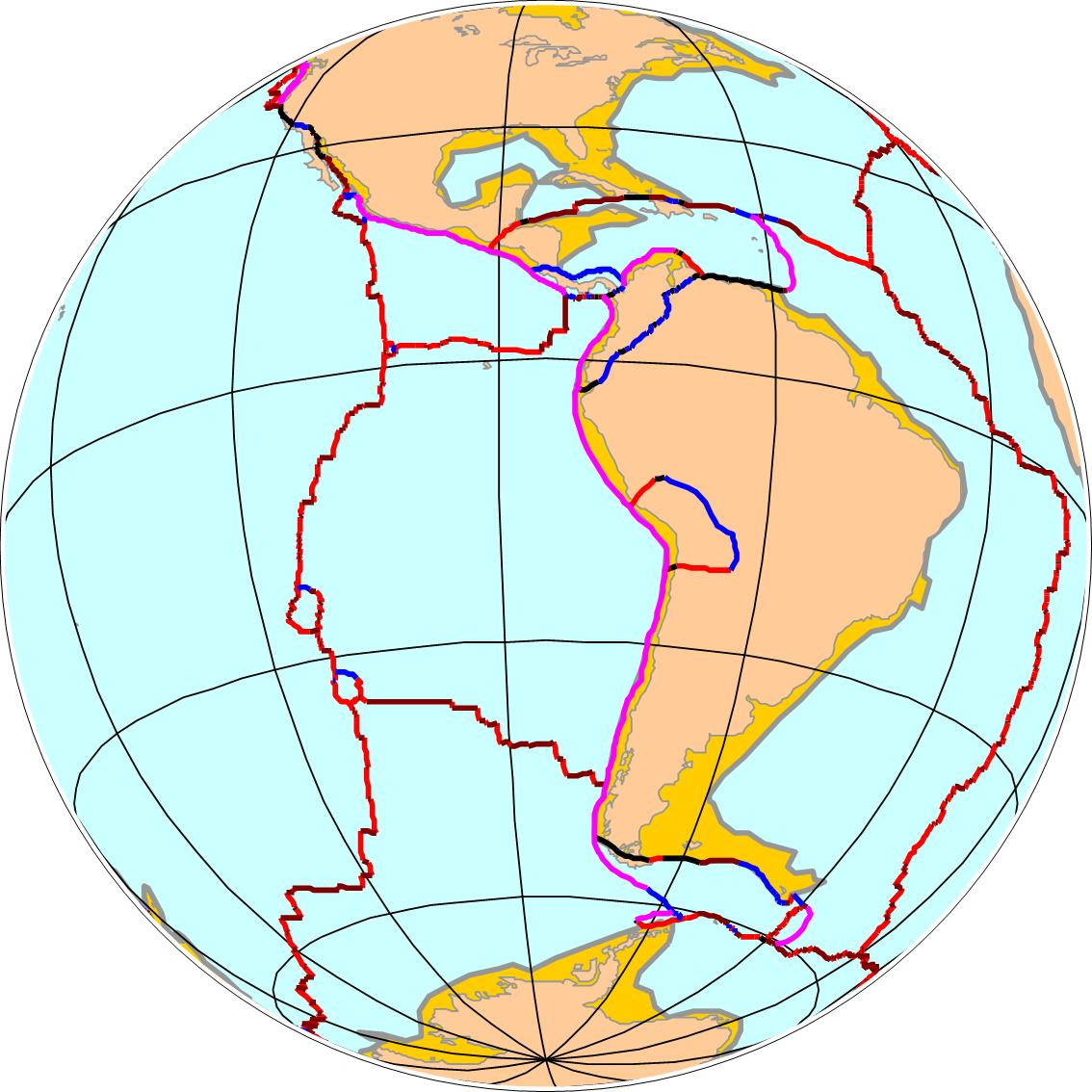 Nazca tectonic plate. Orthogonal projection (as seen from deep space).